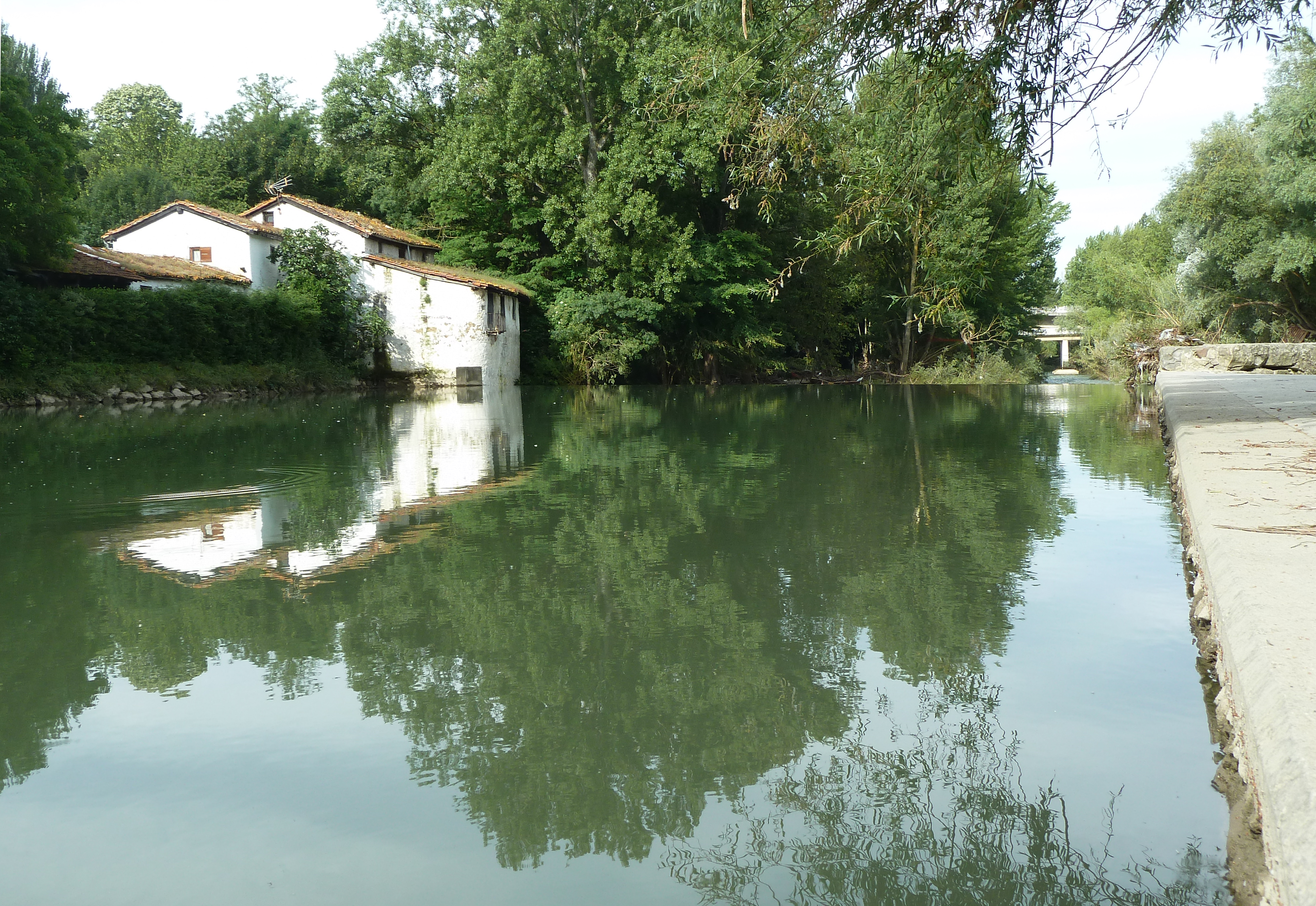 Located next to the riverside grove of San Jorge/Sanduzelai (Pamplona/Iruña), in the Biurdana Park, a dam and a mill were built between 1339 and 1341. The mill was working a least until mid nineteenth and early twentieth centuries.